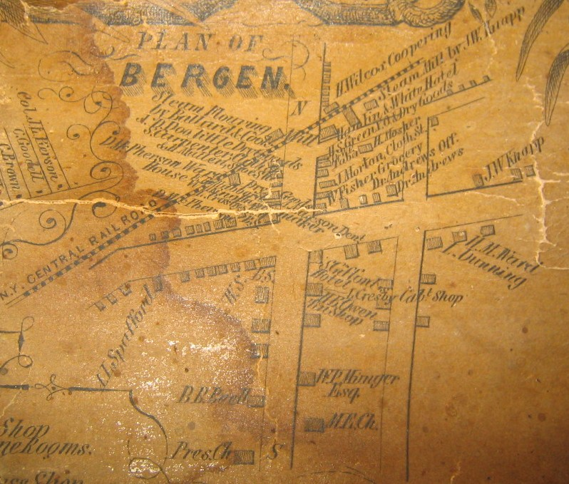 A Picture of the Plan of Downtown Bergen in 1854